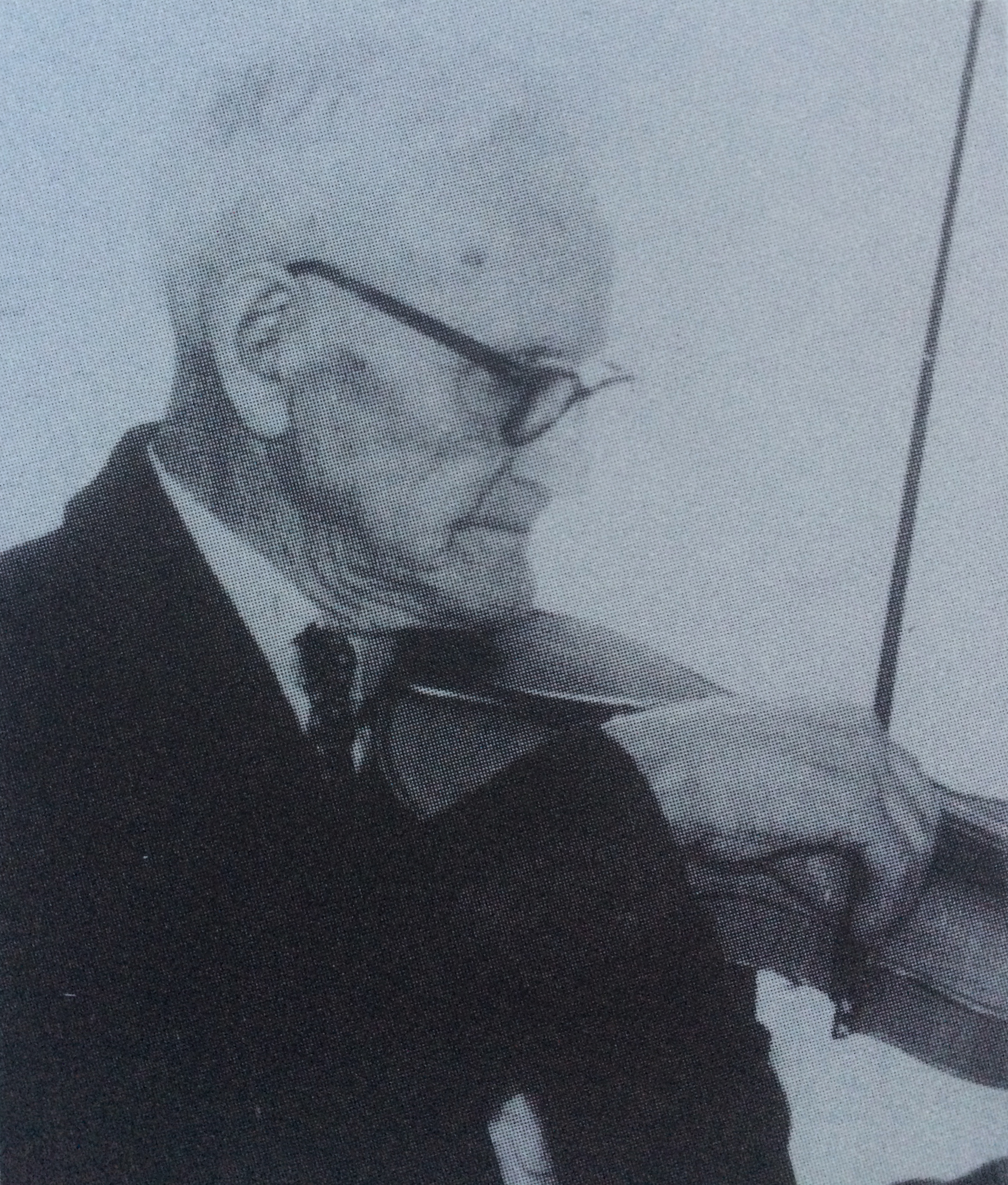 The Norwegian amateur musician Thorvald Oftedal photographed in connection with an interview in 1963